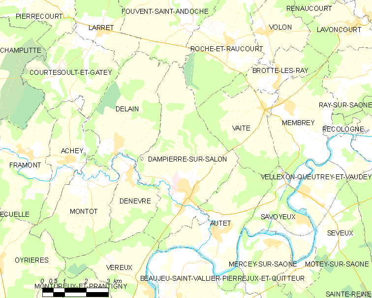 Map of French municipality